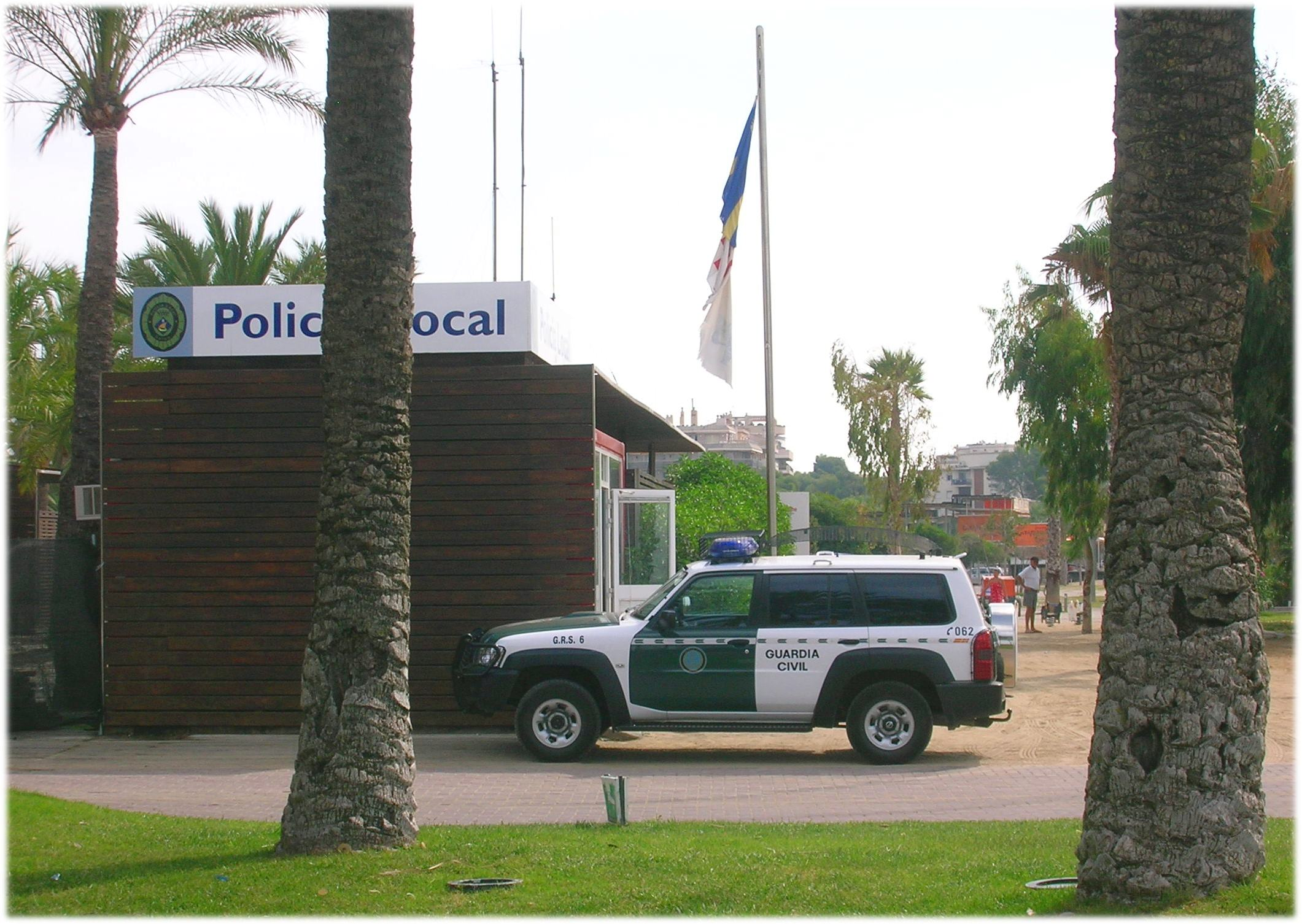 Guardia Civil Nissan Patrol besides a Local Police station in Salou.